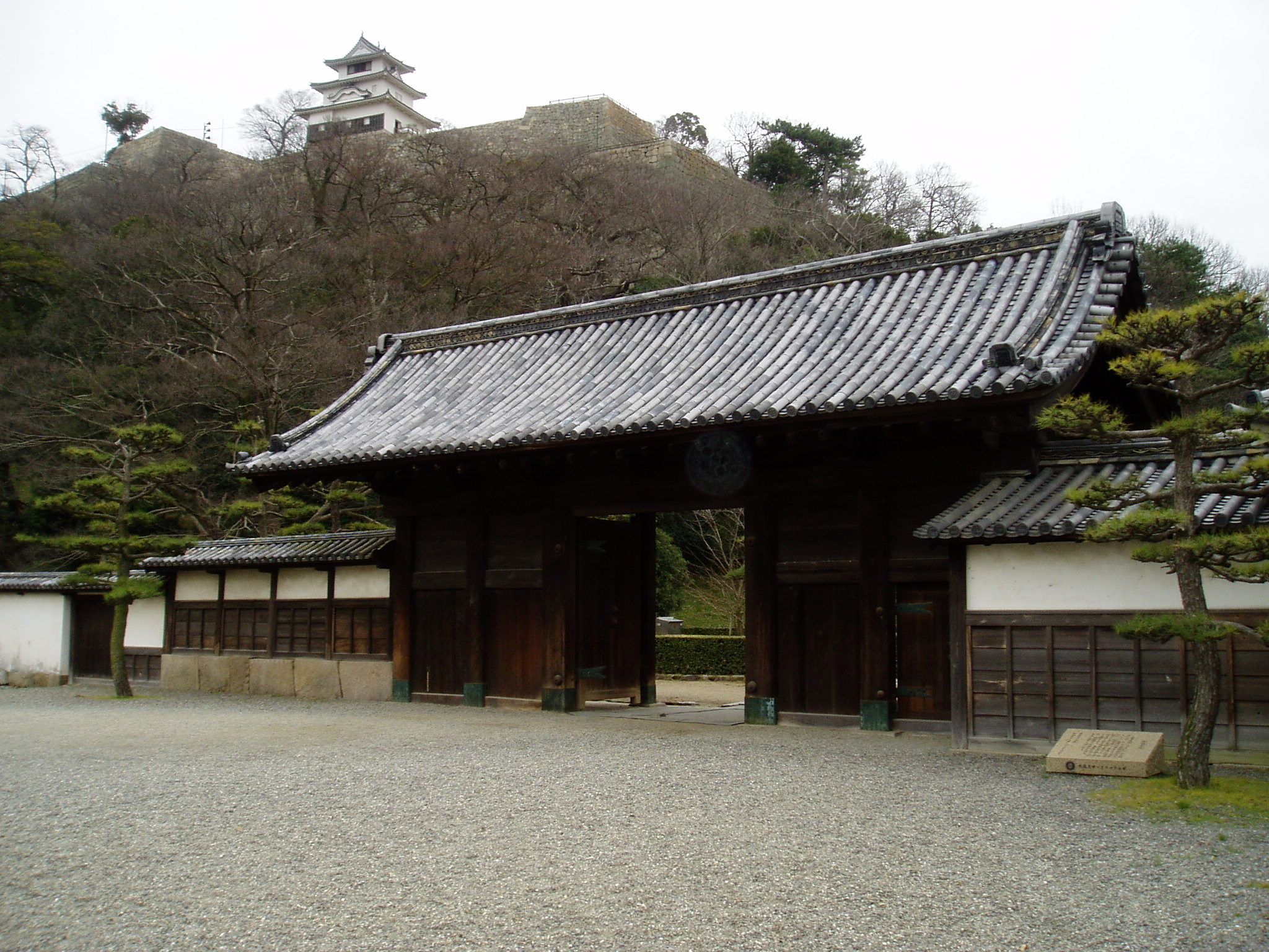 Goten Omote Mon (御殿表門) and the Keep of Marugame Castle (丸亀城) in Marugame, Kagawa, Japan